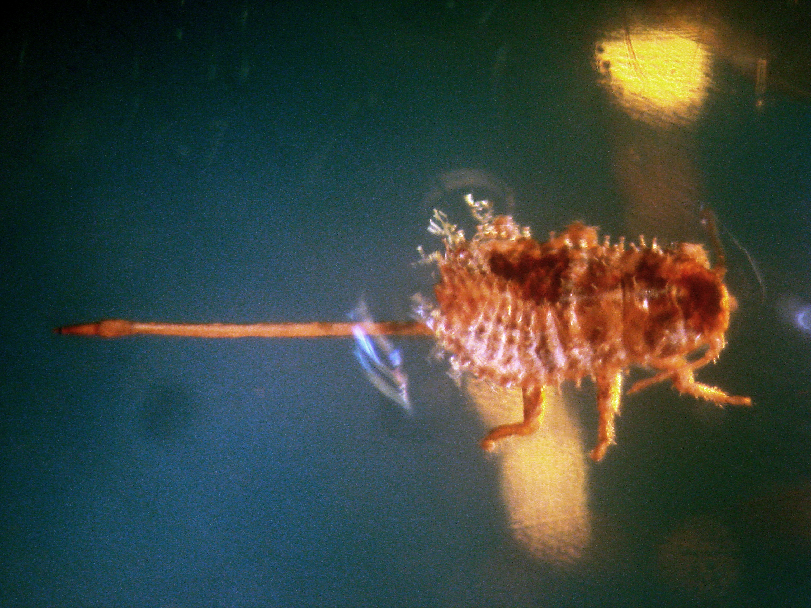 Baltic amber inclusions - 40-50 million years old - Aphid (Hemiptera, Sternorrhyncha, Aphidoidea, Aphid, ...?) - About 1 mm long (without trunk)